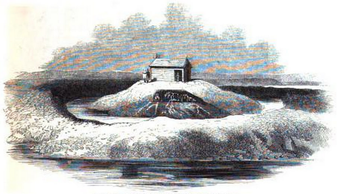 "Site of Queen Philippa's Castle, Queenborough, Kent" (an engraving published in London in 1845).